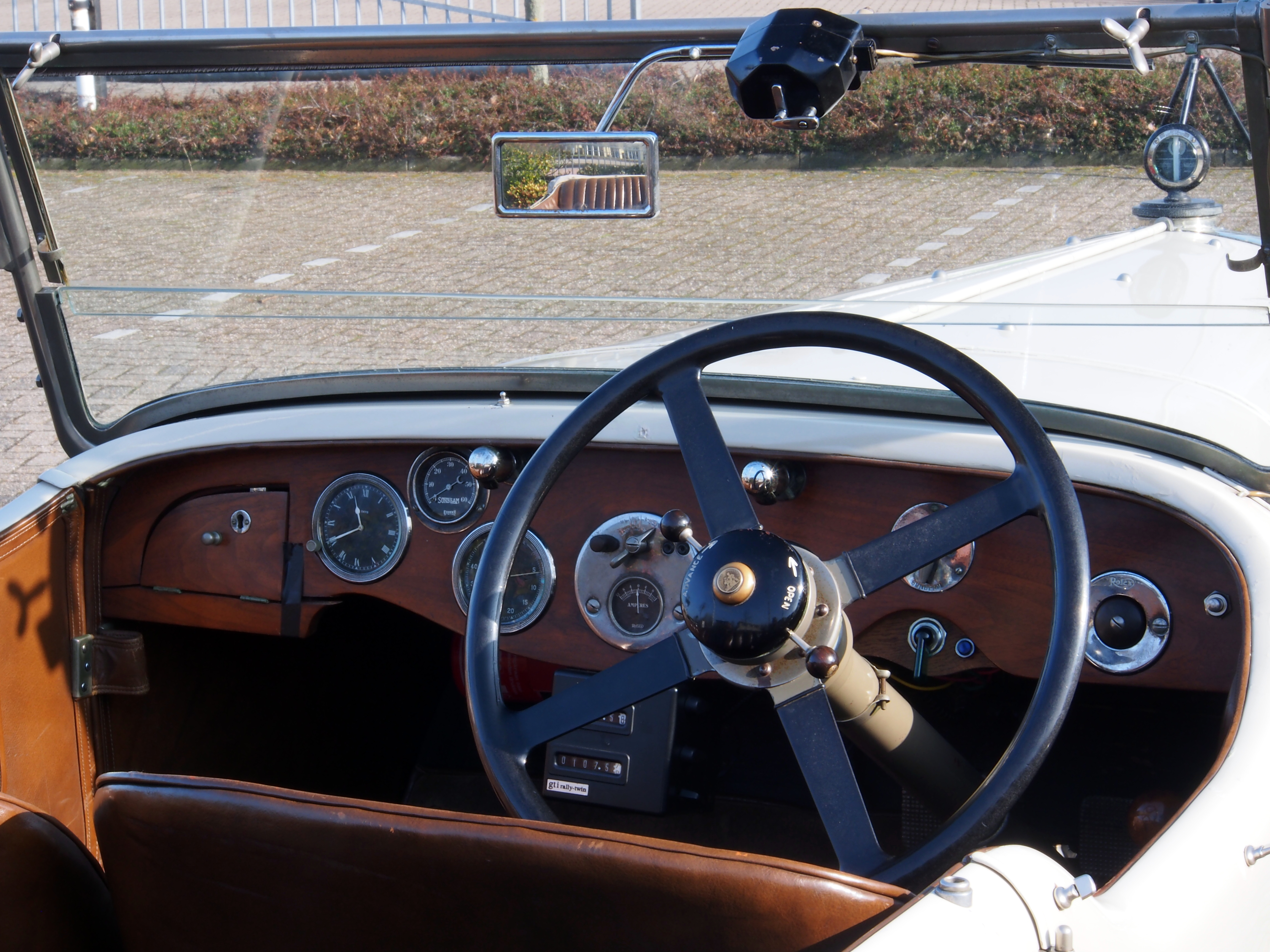 1926 Sunbeam 3.0-Litre Super Sports ‘Twin Cam’ Tourer engine 4070F 6 cylinders, 2916 cc chassis 4062F source Photographed in front of the Den Hartogh Ford Museum. Steering wheel.